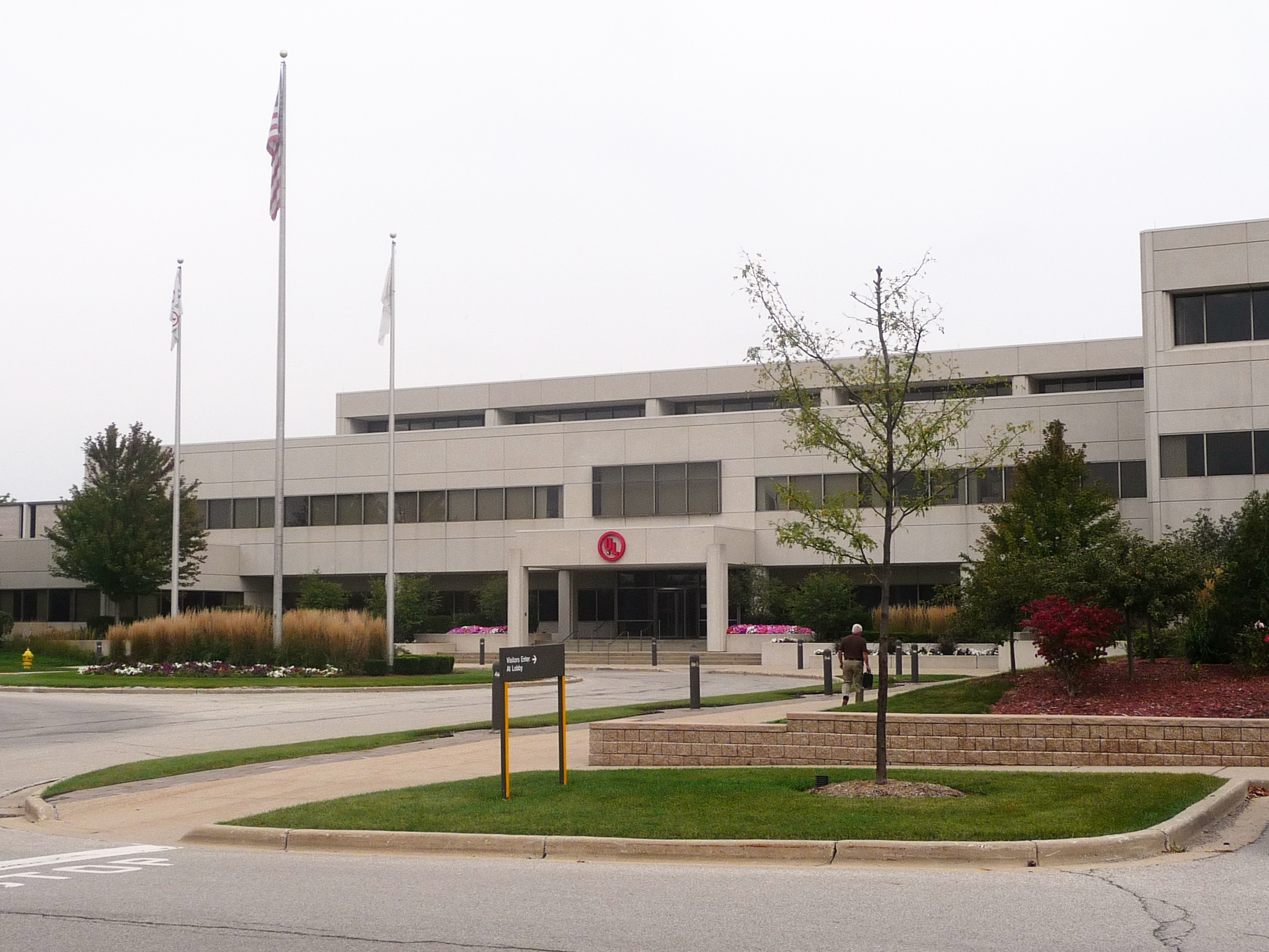 Headquarter of Underwriters Laboratories Inc. in Northbrook